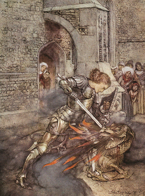 "How Sir Launcelot fought with a fiendly dragon." From The Romance of King Arthur (1917). Abridged from Malory's Morte d'Arthur by Alfred W. Pollard. Illustrated by Arthur Rackham. This edition was published in 1920 by Macmillan in New York.